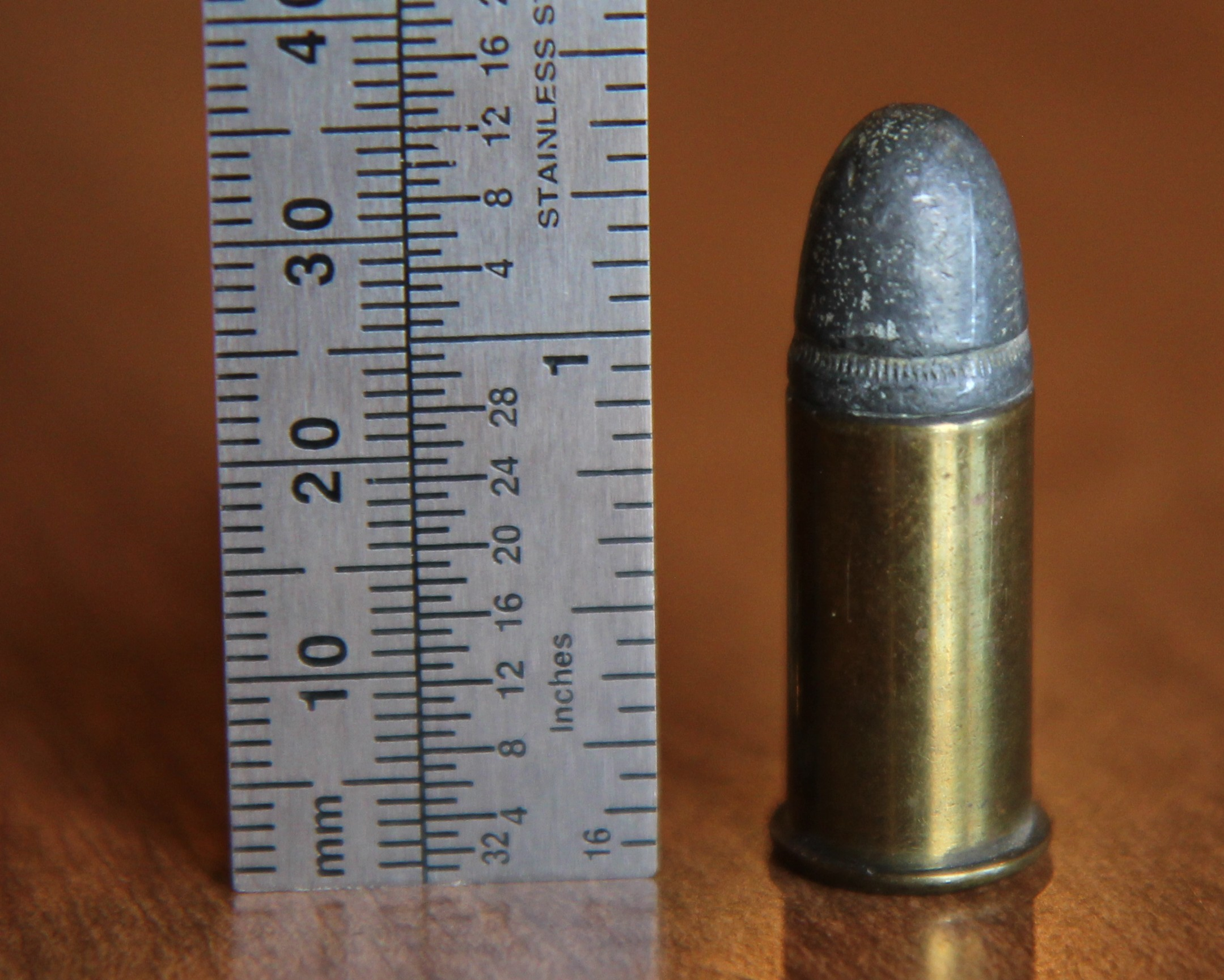 .44 Smith & Wesson pistol cartridge displayed beside a metric/imperial ruler.